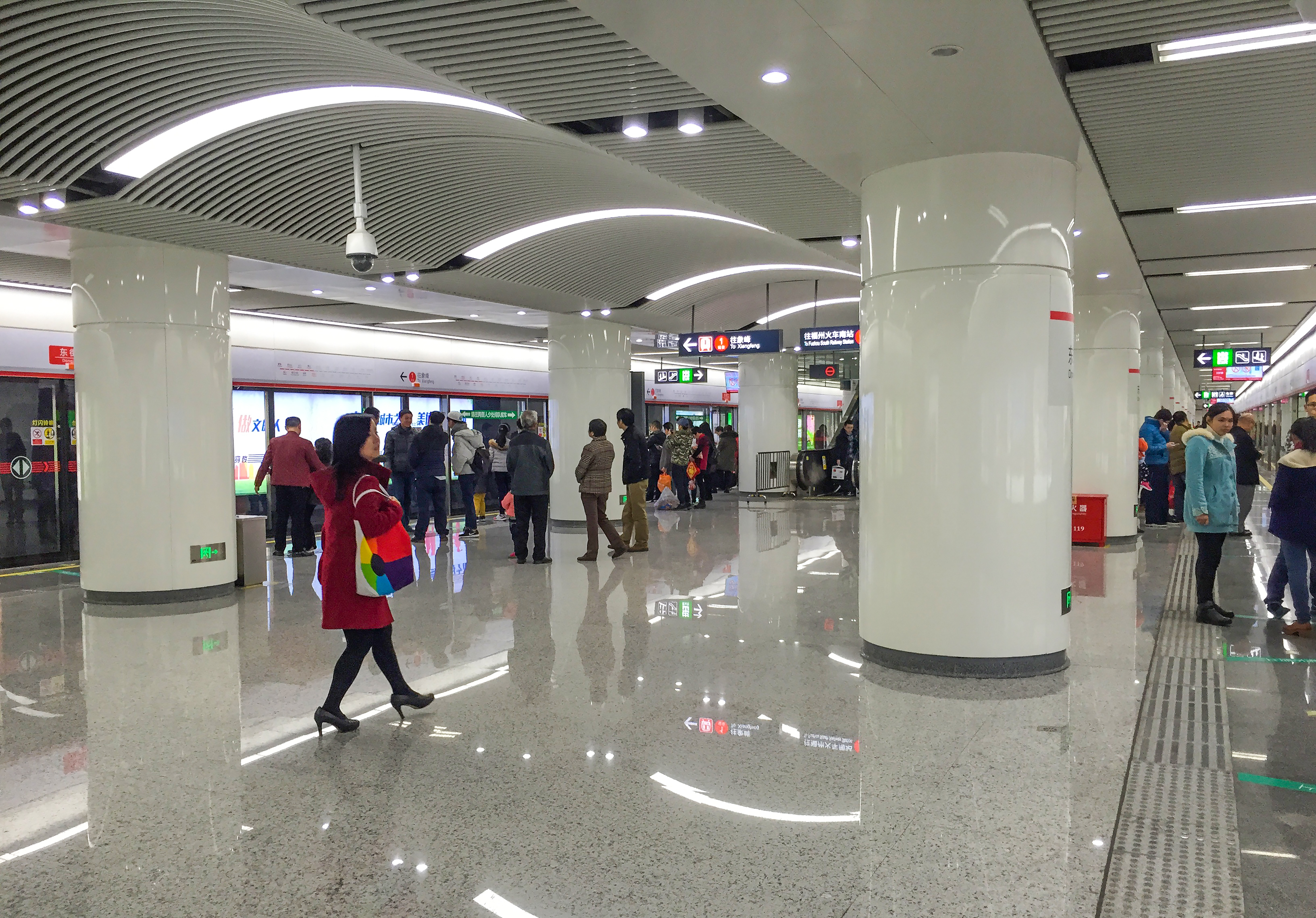 Wholly white - what a pity for this important station. But things will change, like SZM4's wallpapers.